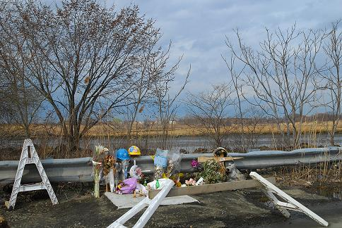 I am the photographer/creator of this photograph. I hereby copyright my own work.